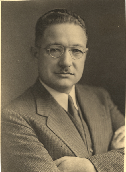 Fred Lowe Soper in 1928. This photograph was taken during the time that Soper was a staff member of the Rockefeller Foundation's International Division in Brazil.